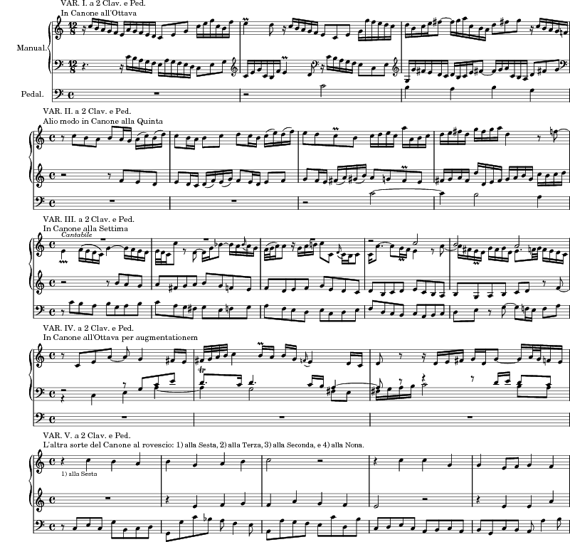 Opening bars of the 5 Canonic Variations on "Vom Himmel hoch da komm' ich her", BWV 769, by J. S. Bach for organ with two manuals and pedals, encoded in lilypond on the Mutopia website